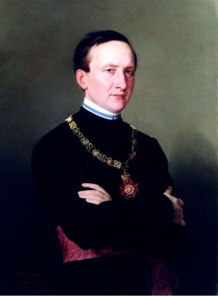 Portrait of Anton Kržan.